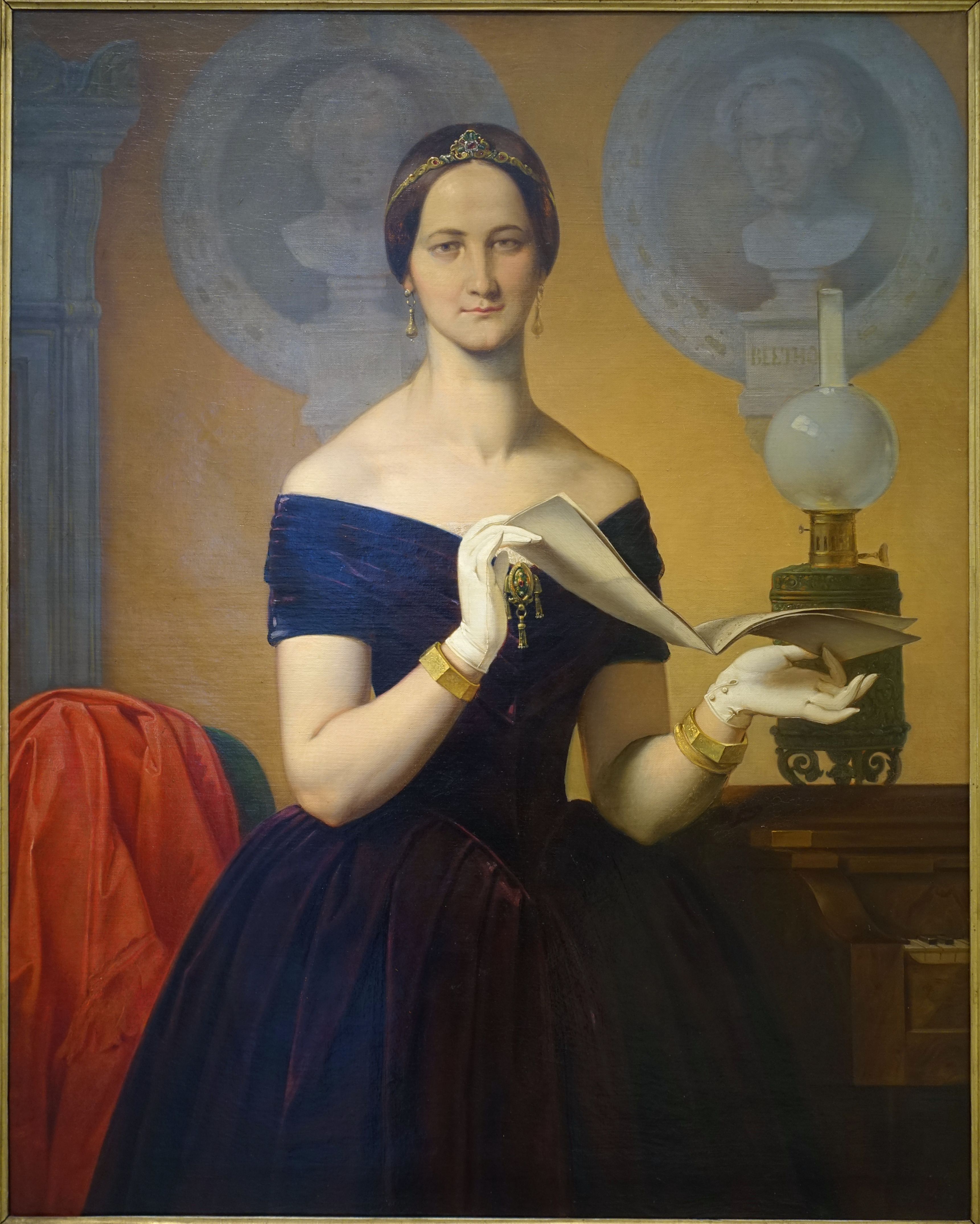 Exhibit in the Germanisches Nationalmuseum - Nuremberg, Germany.